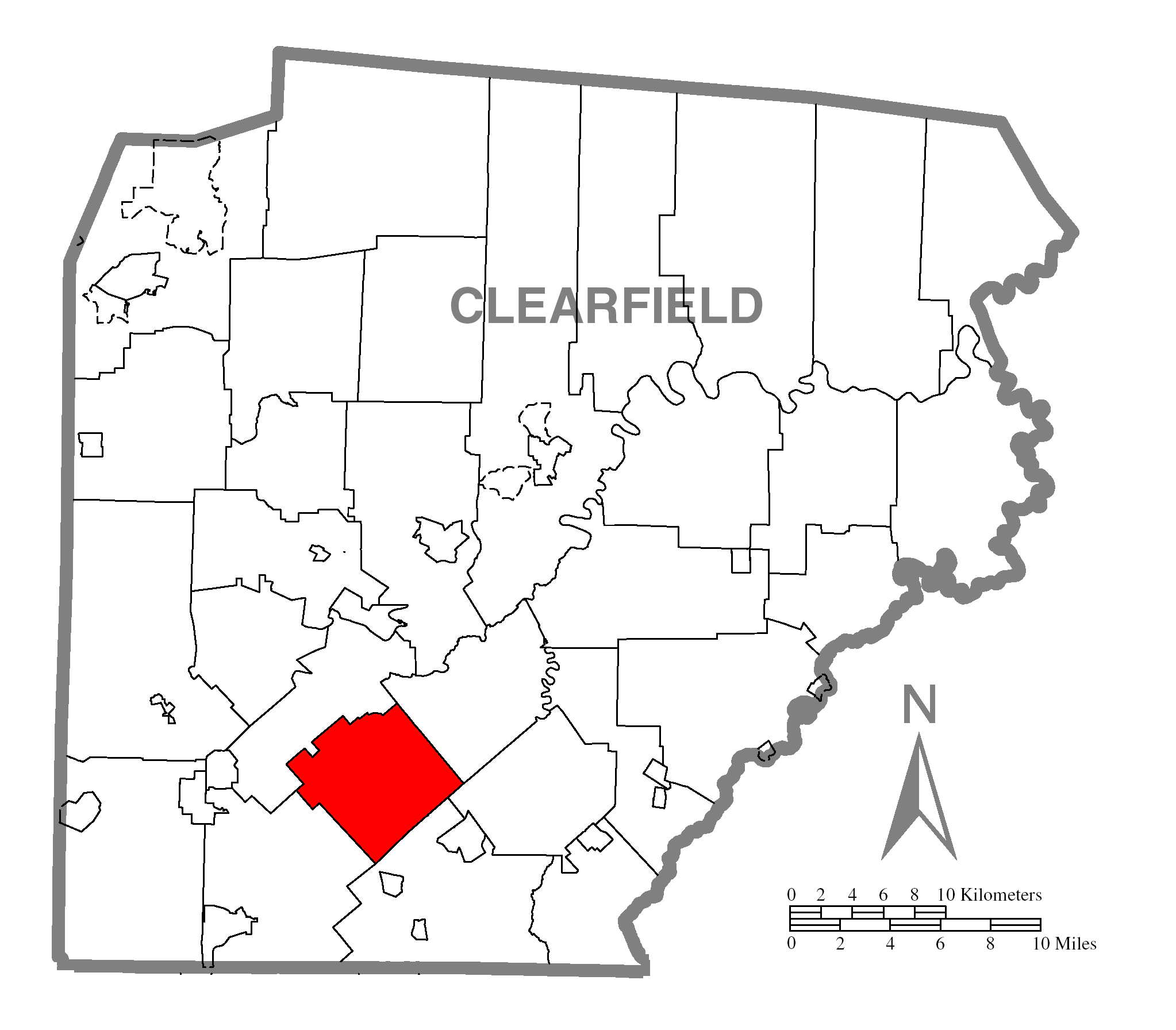 A map of Clearfield County showing Jordan Township, Pennsylvania (alternate) highlighted on the map.